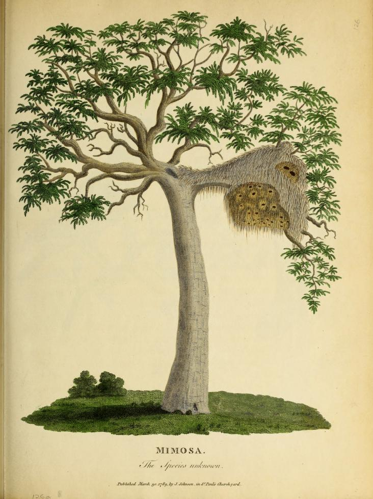 Mimosa with a Sociable Weaver nest. Picture from A narrative of four journeys into the country of the Hottentots, and Caffraria